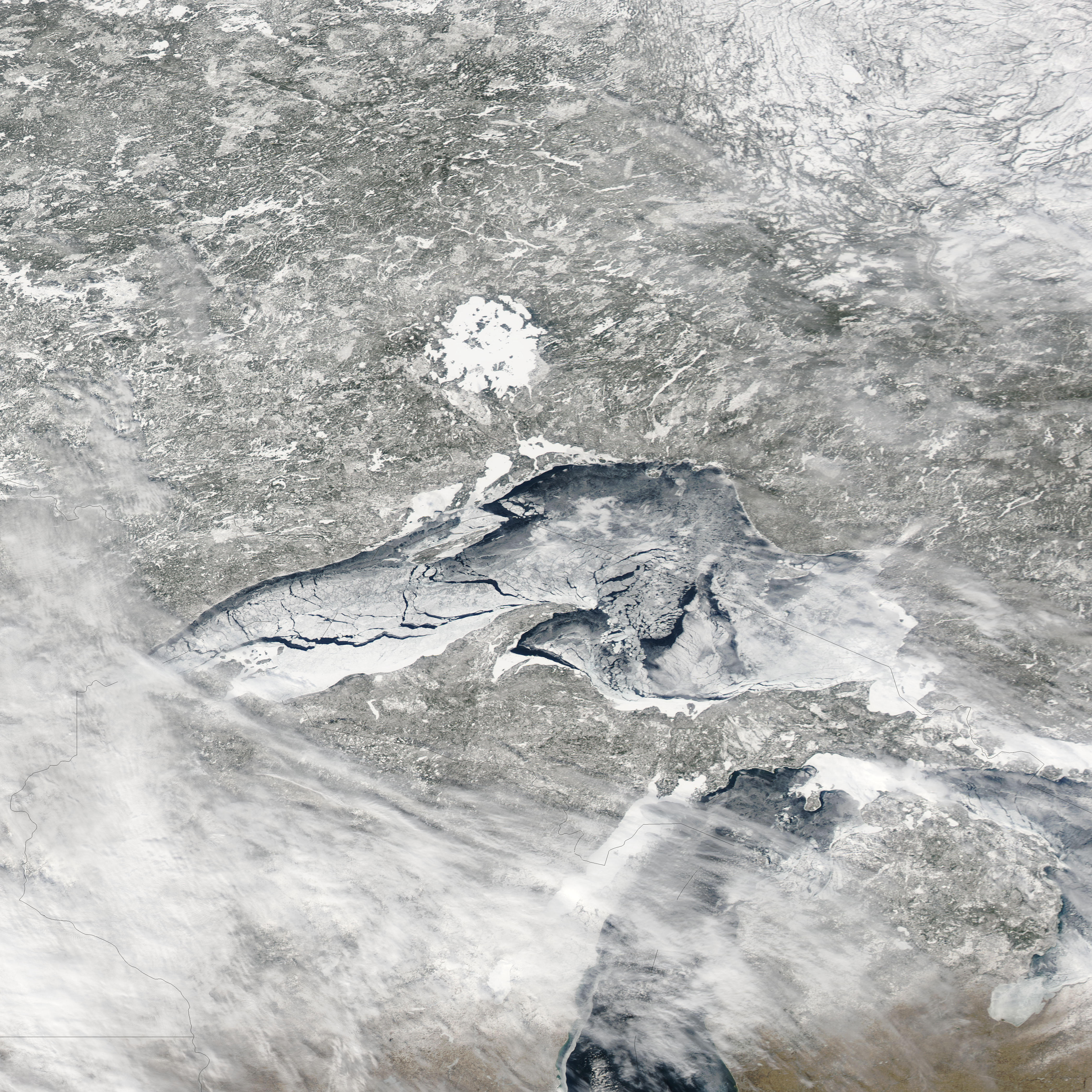 A relatively rare blanket of ice rested on the surface of Lake Superior in early March 2009. The Moderate Resolution Imaging Spectroradiometer (MODIS) on NASA’s Aqua satellite captured this image of the lake and its surroundings on March 3, 2009. In this true-color, photo-like image, ice floating on the surface of Lake Superior ranges in color from white to pale gray-blue. The ice appears most solid along the southern shore of the western half of the lake. North of that solid band of ice, cracks reveal deep blue lake water. Dark lake water also appears in the eastern part of the lake, especially along its northern shore. As it does in the west, ice cover appears relatively unbroken at the extreme southeast end of the lake.